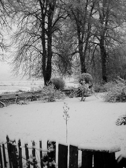 Dalguise in the snow. Taken in a private garden, looking South East. Shows the remains of the old lime avenue leading up to Dalguise House (now a kids holiday venue)